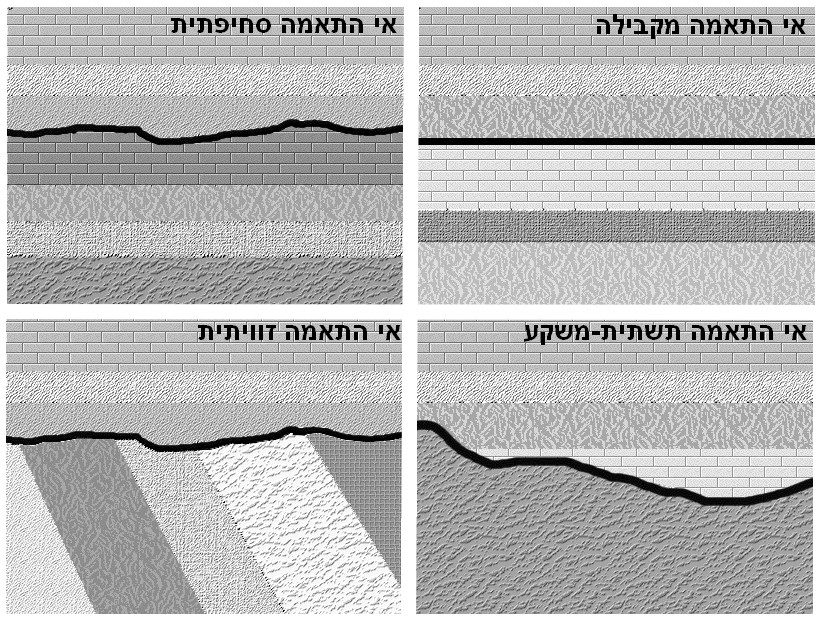 unconformity types, Hebrew